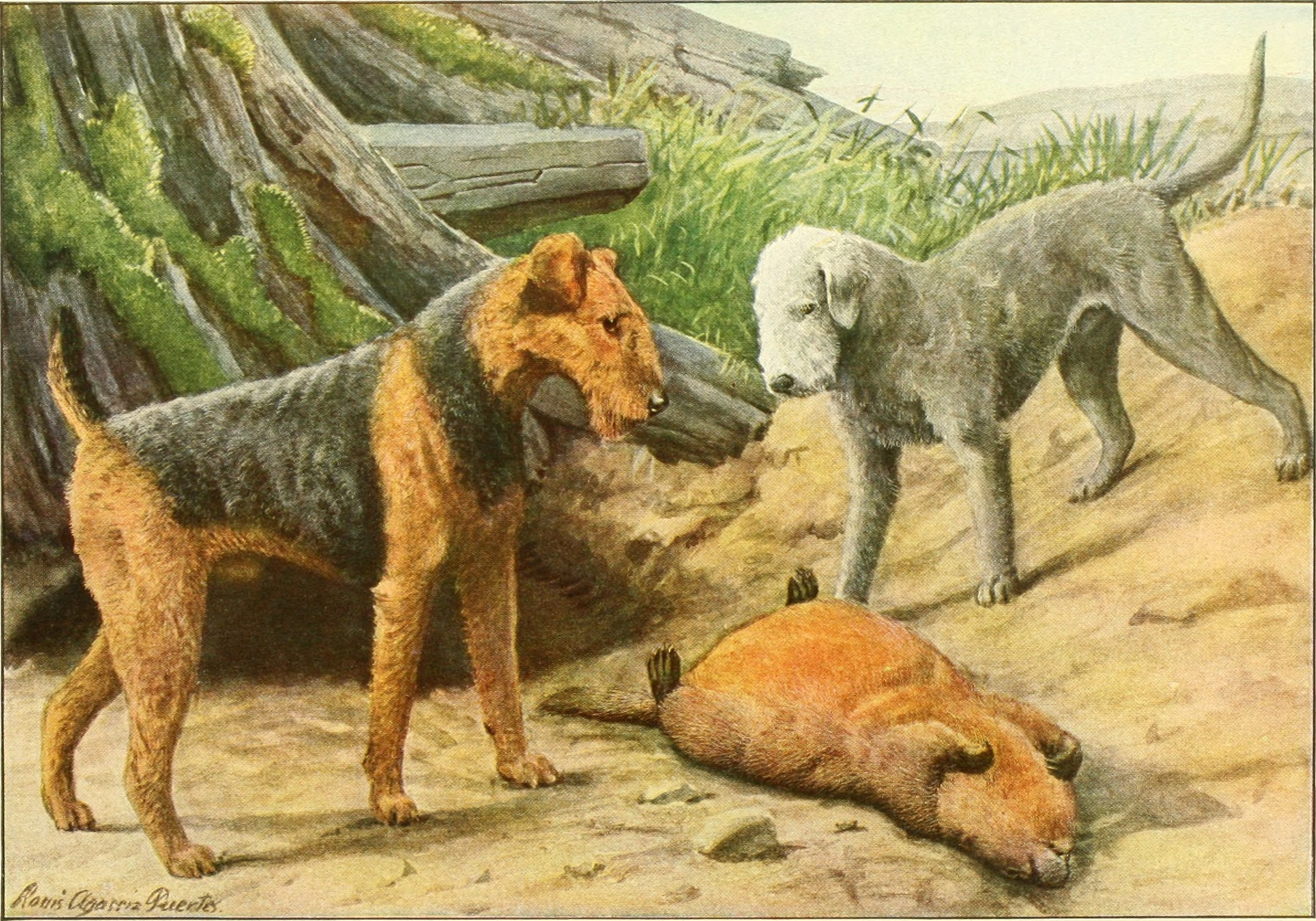 Title: The book of dogs; an intimate study of mankind's best friend Year: 1919 (1910s) Authors: National Geographic Society (U. S. ); Fuertes, Louis Agassiz, 1874-1927; Baynes, Ernest Harold, 1868-1925 Subjects: Dogs Publisher: Washington, D. C. , The National geographic society Text Appearing Before Image: ' Text Appearing After Image: 66